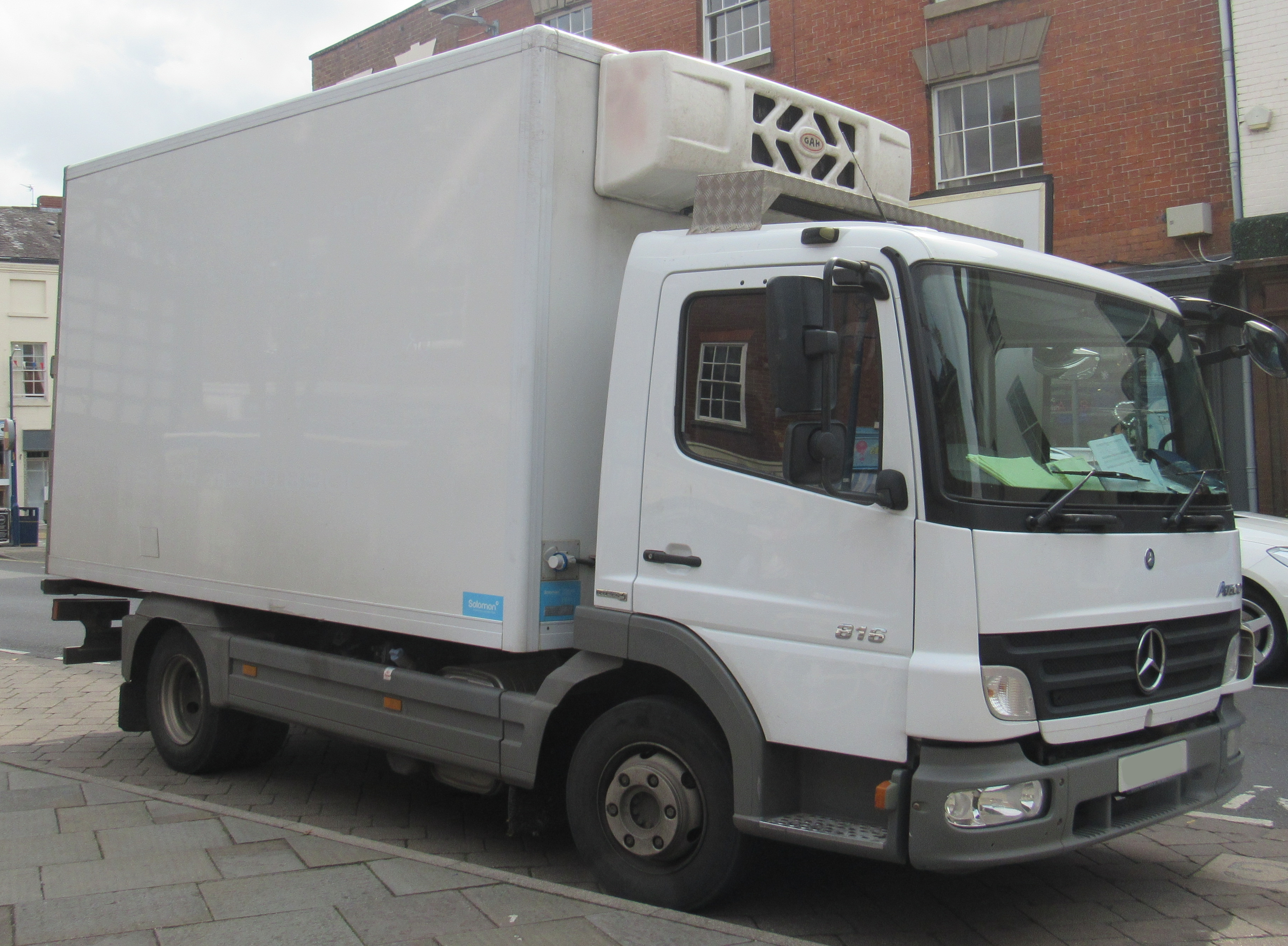 2010 Mercedes-Benz Atego Day 816 4.2 Taken in Warwick